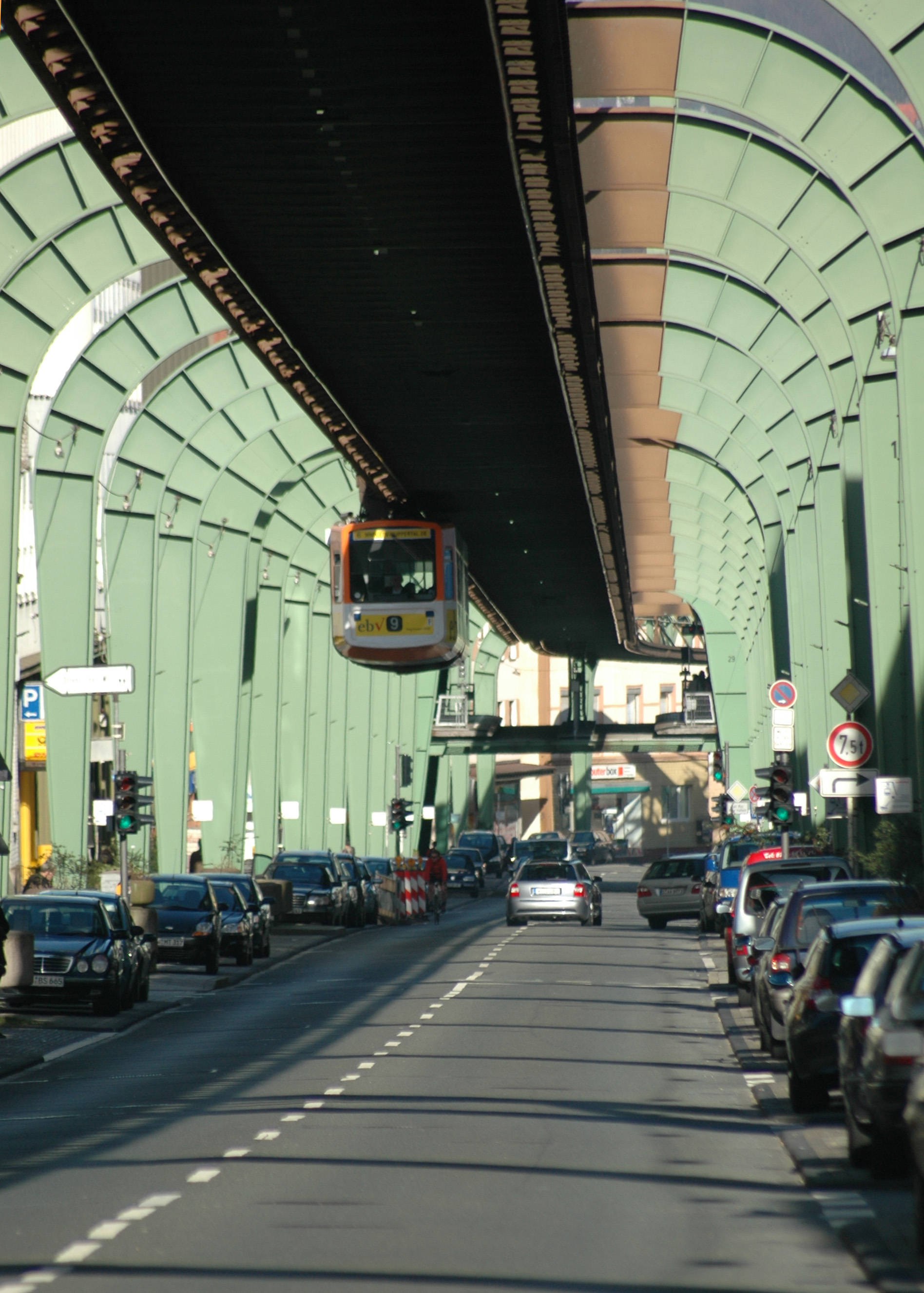 Wuppertal Schwebebahn running above Kaiserstraße